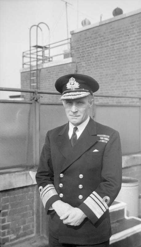 Photograph of of Vice Admiral Sir Guy Charles Cecil Royle, KCB, GMG, Chief of Australian Naval Staff.